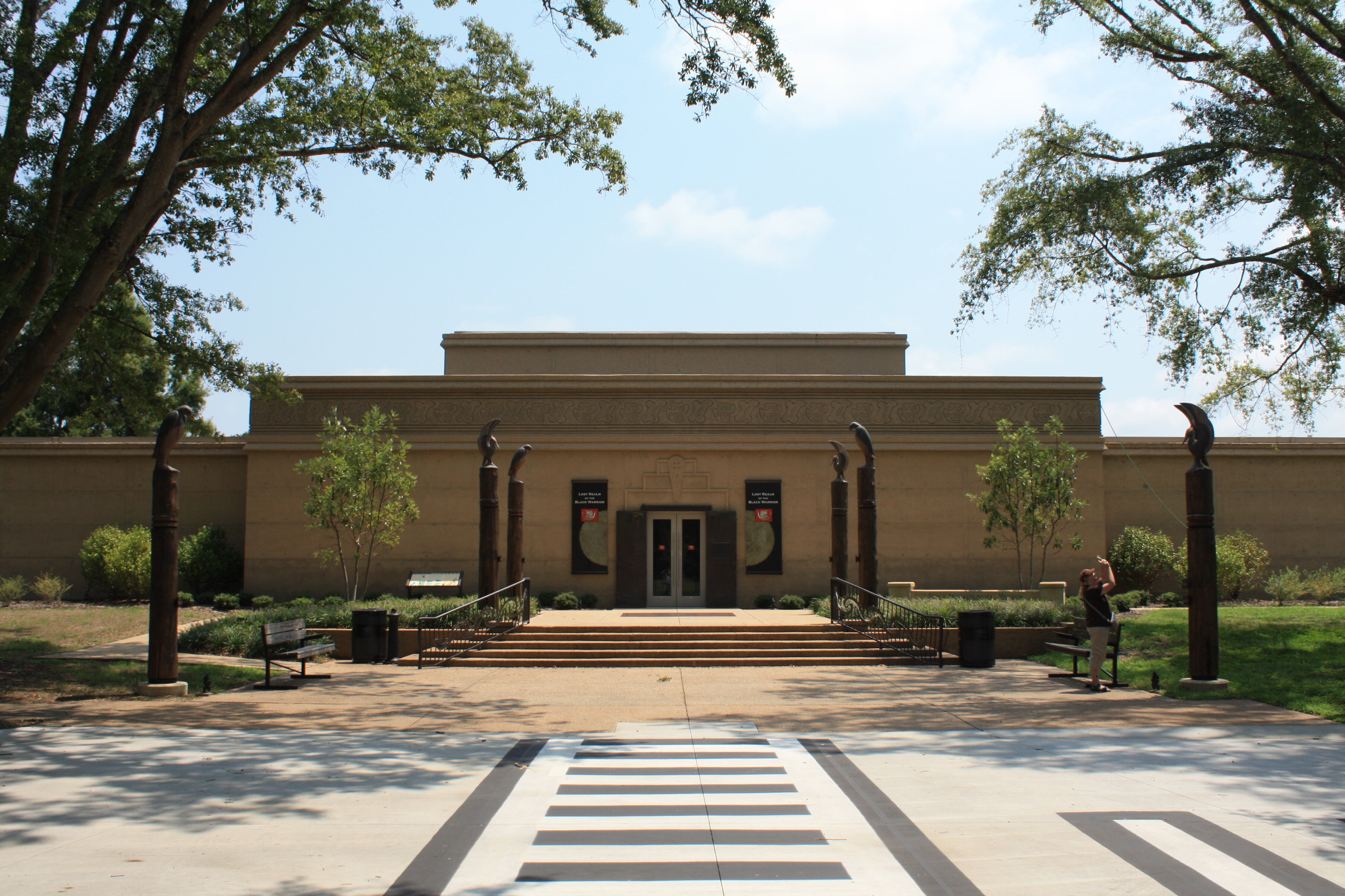 The Jones Archaeological Museum at the Moundville Archaeological Park in Moundville, Hale County, Alabama, United States.